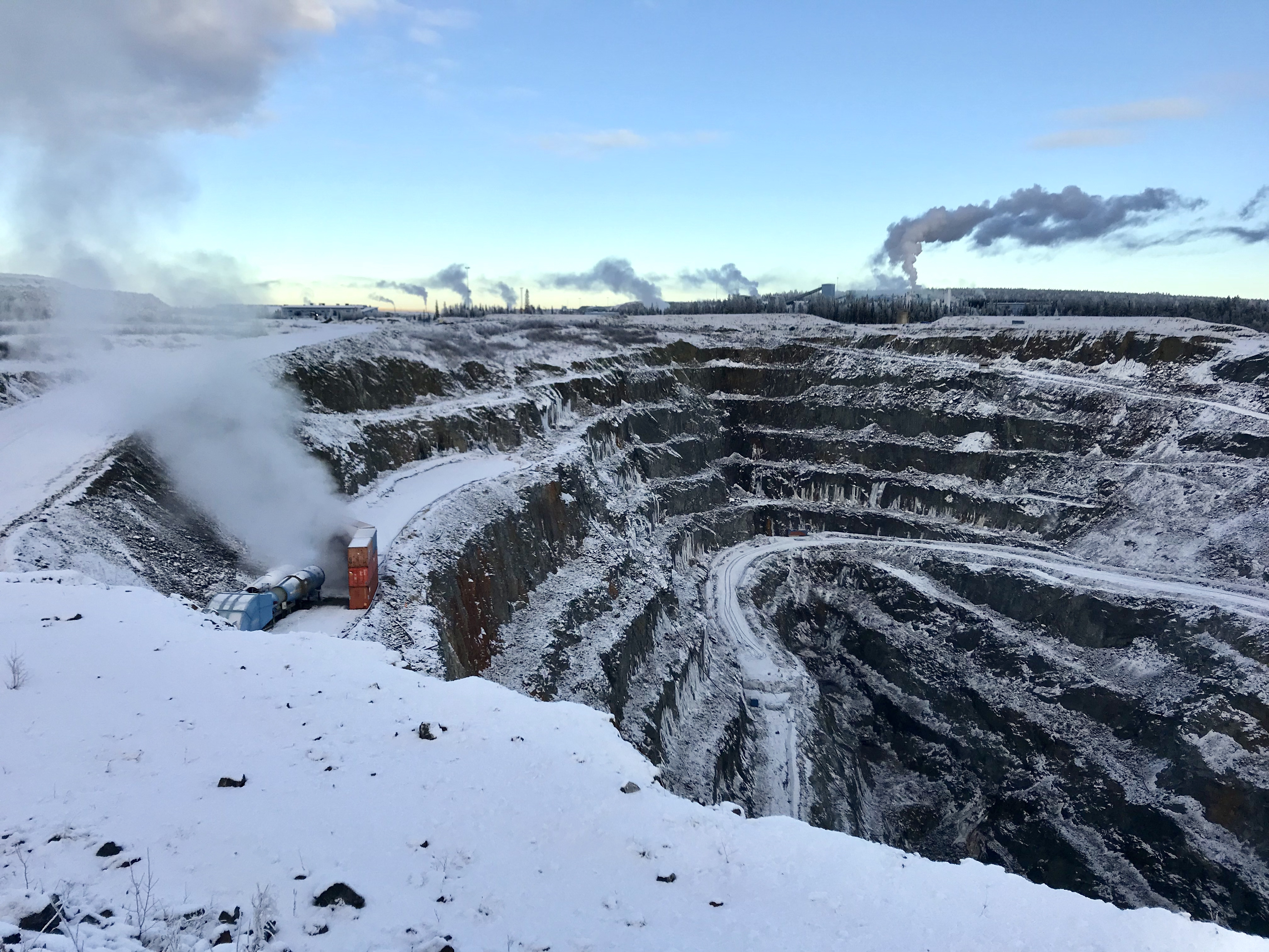 Suurikuusikko mine in Kittilä.